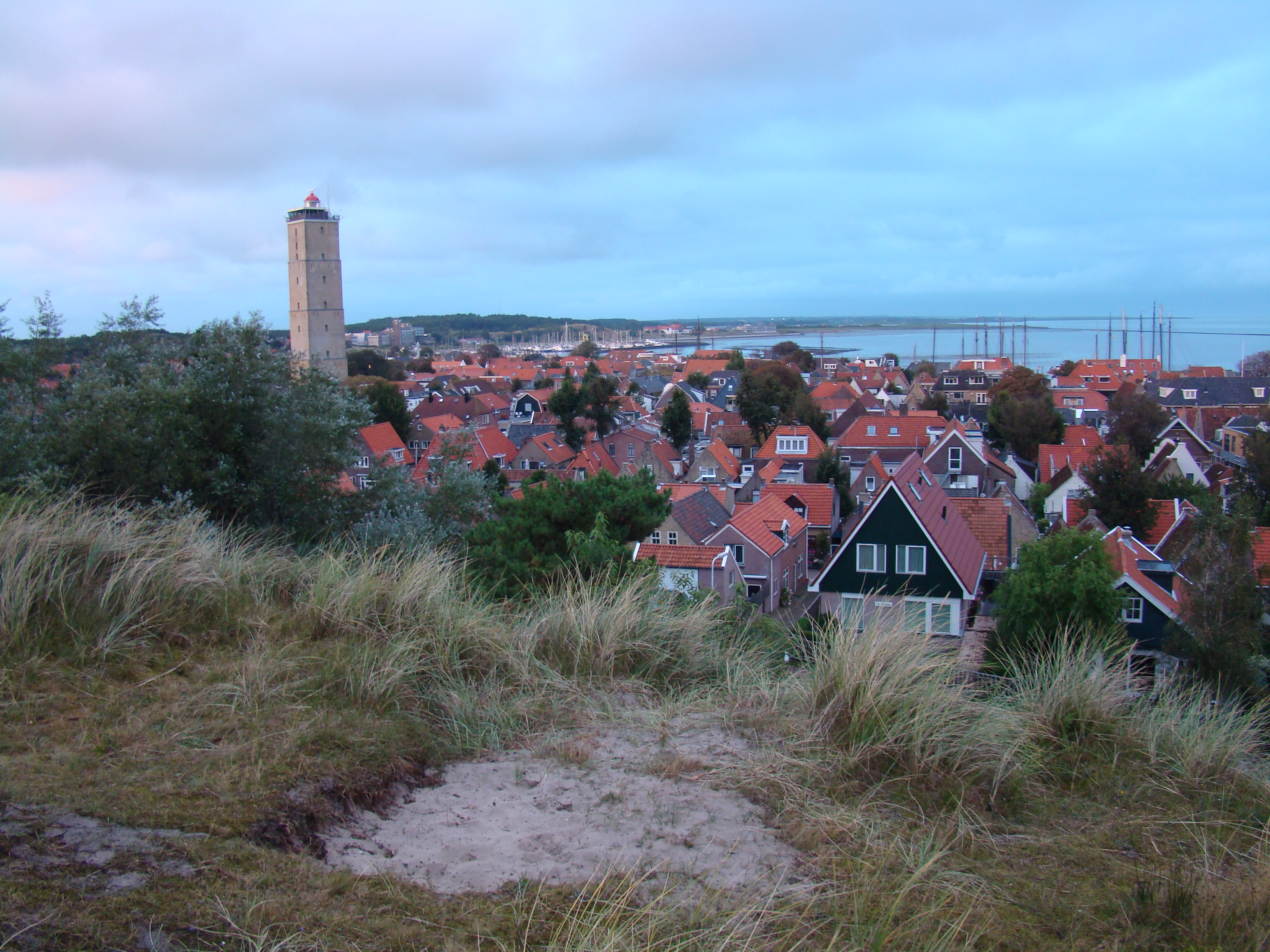 Impressions of the isle Terschelling, Netherlands